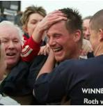 Rotherham rugby club captain Mike Schmid congratulated by fans after securing promotion